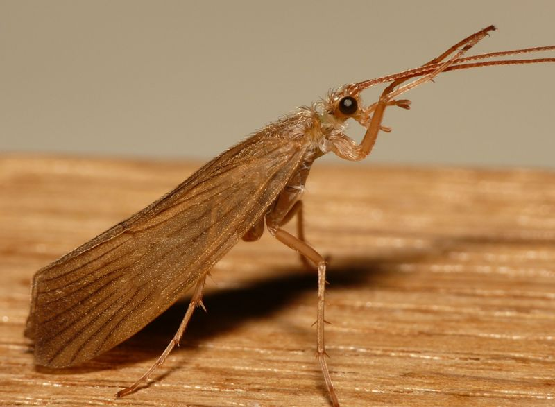 Agrypnia pagetana. Location: The Netherlands - Rhenen - Blauwe Kamer